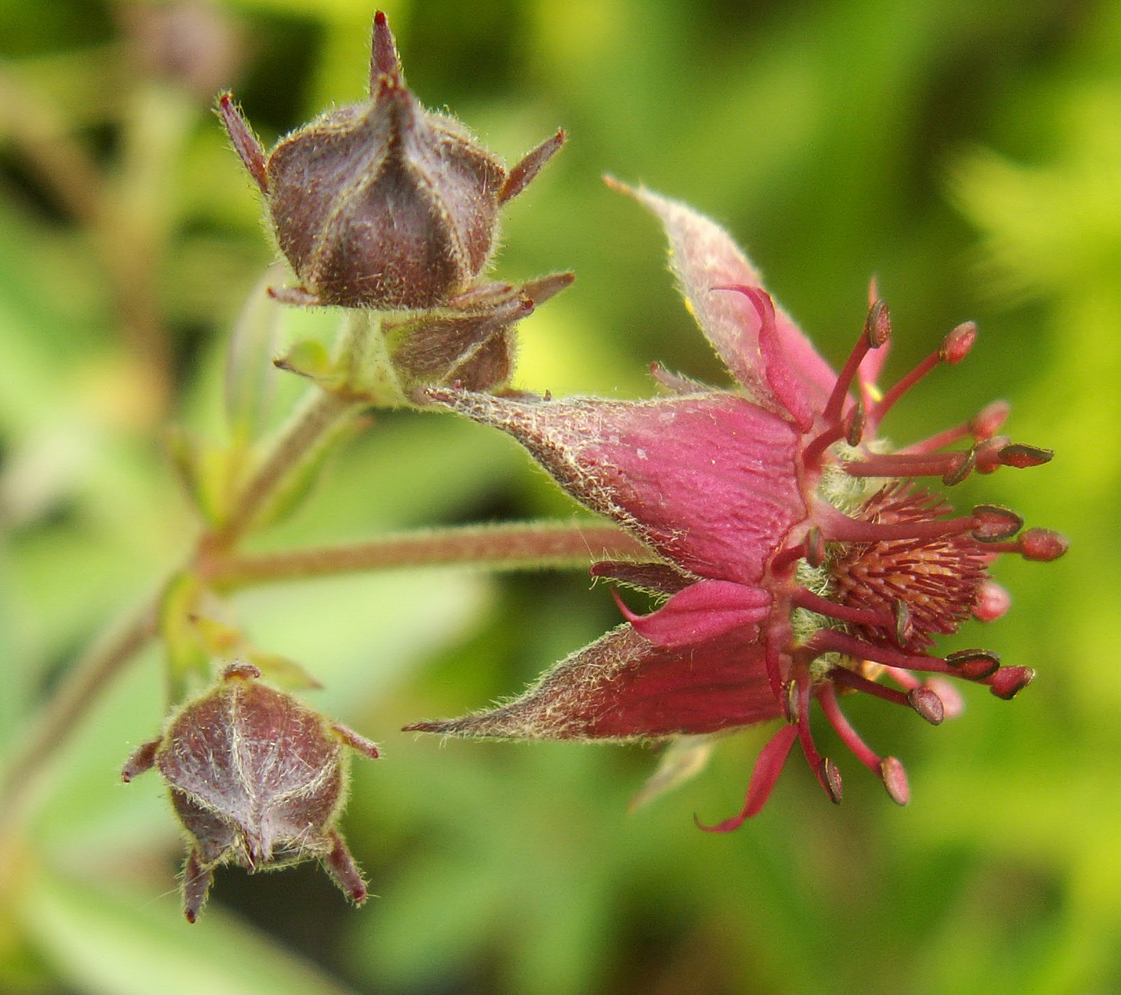 Comarum palustre, flower. Ina valley near Goleniow, NW Poland